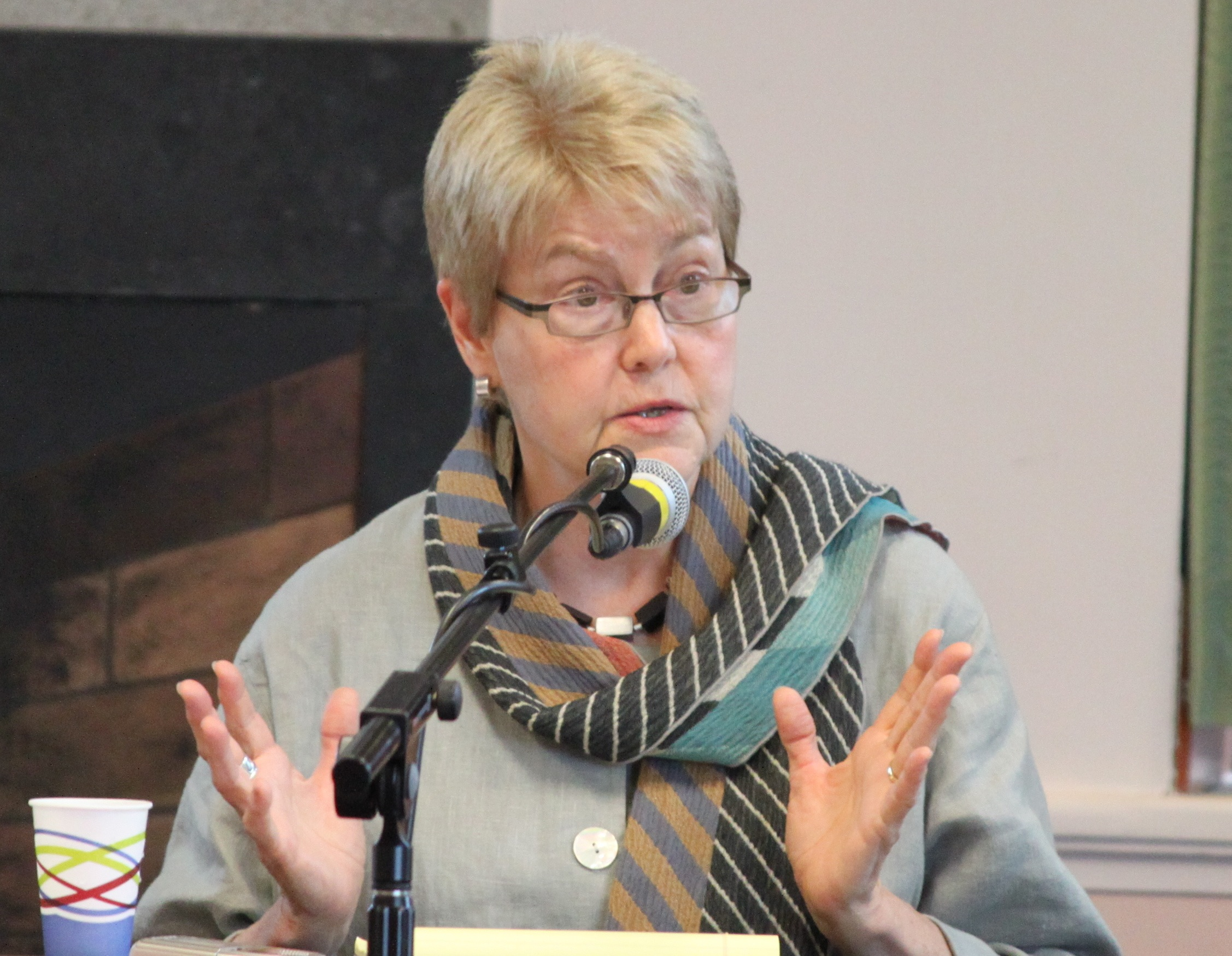 Charlotte Bunch in 2011 at the Berkshires Women's History Conference